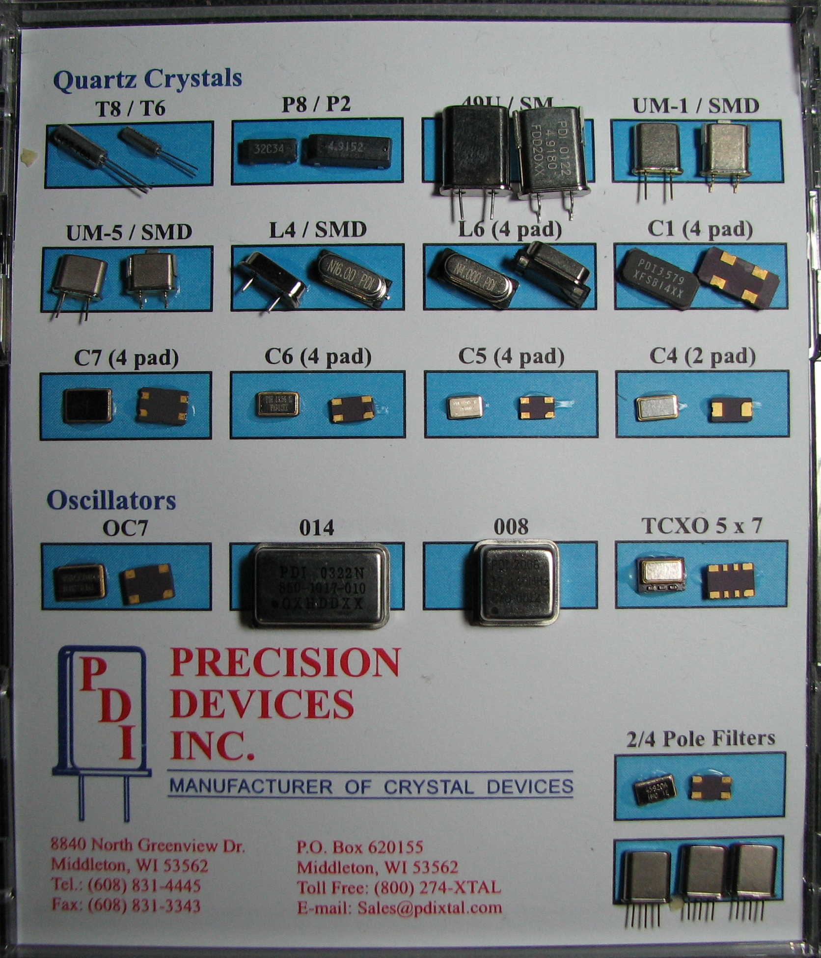 A display of common packages for a variety of quartz crystal products.